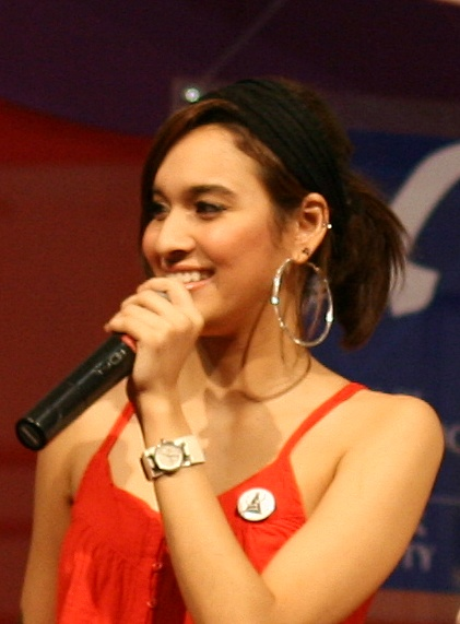 Yardthip Rajpal, a Thai actress.